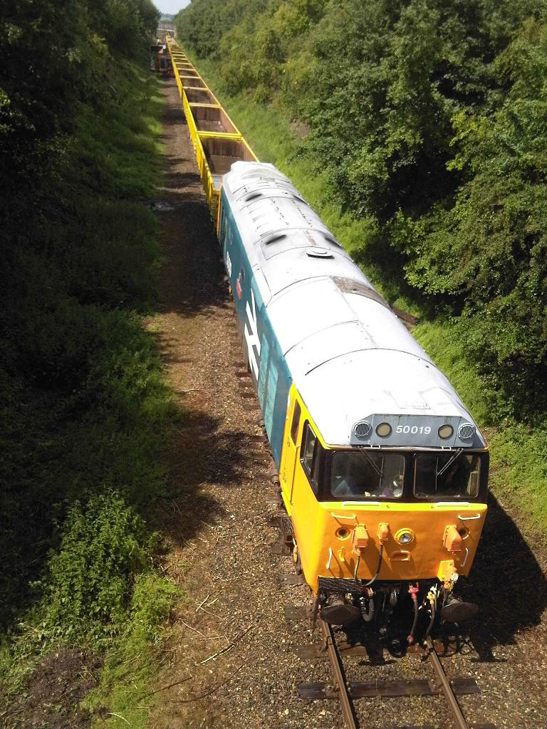 50019 Ramillies on a ballast working on the Mid-Norfolk Railway